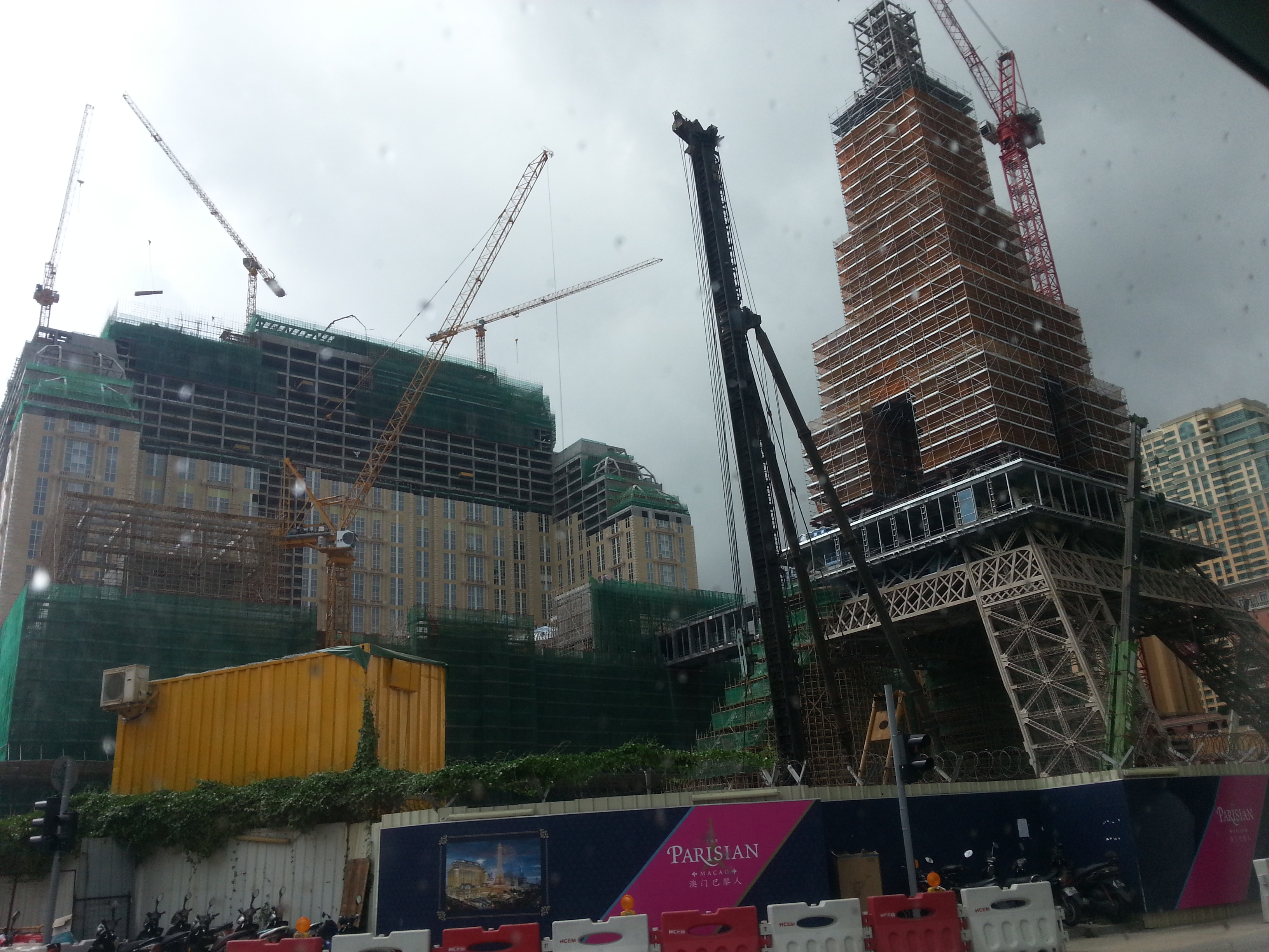 As taken on Friday, August 28th 2015, a week after it was announced that The Parisian needs longer than expected for completion.